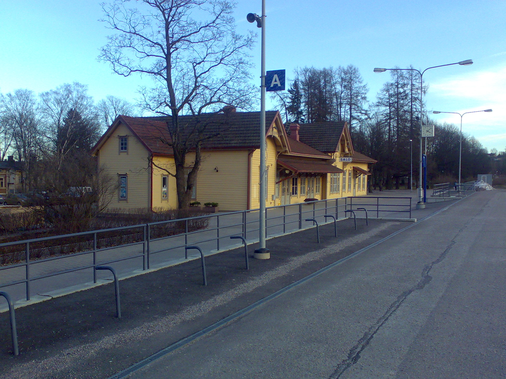 Salo railway station